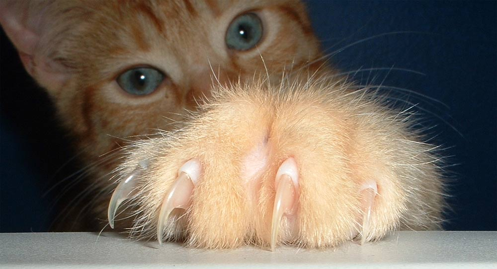 Ti-Rat, Montreal born red cat, showing his claws with pride.